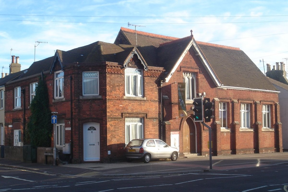 Former Former Newland Road Mission Church, Worthing, West Sussex, England. Subsequently a Foresters' Hall and now a photography studio.